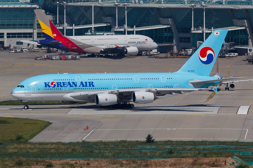 Korean Air and Asiana Airlines Airbus A380 at Incheon Airport